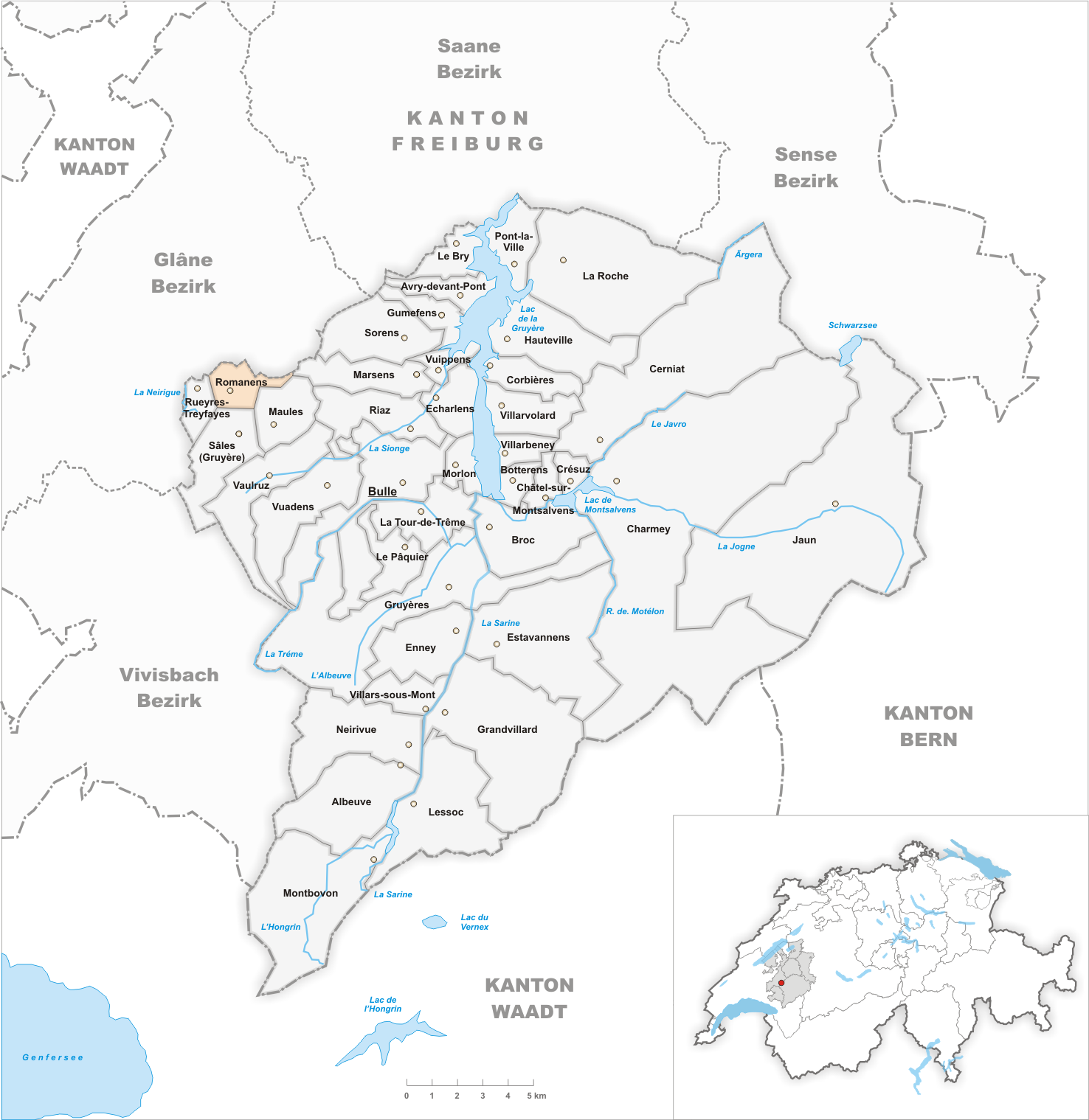 Municipality Romanens Artist: Tschubby